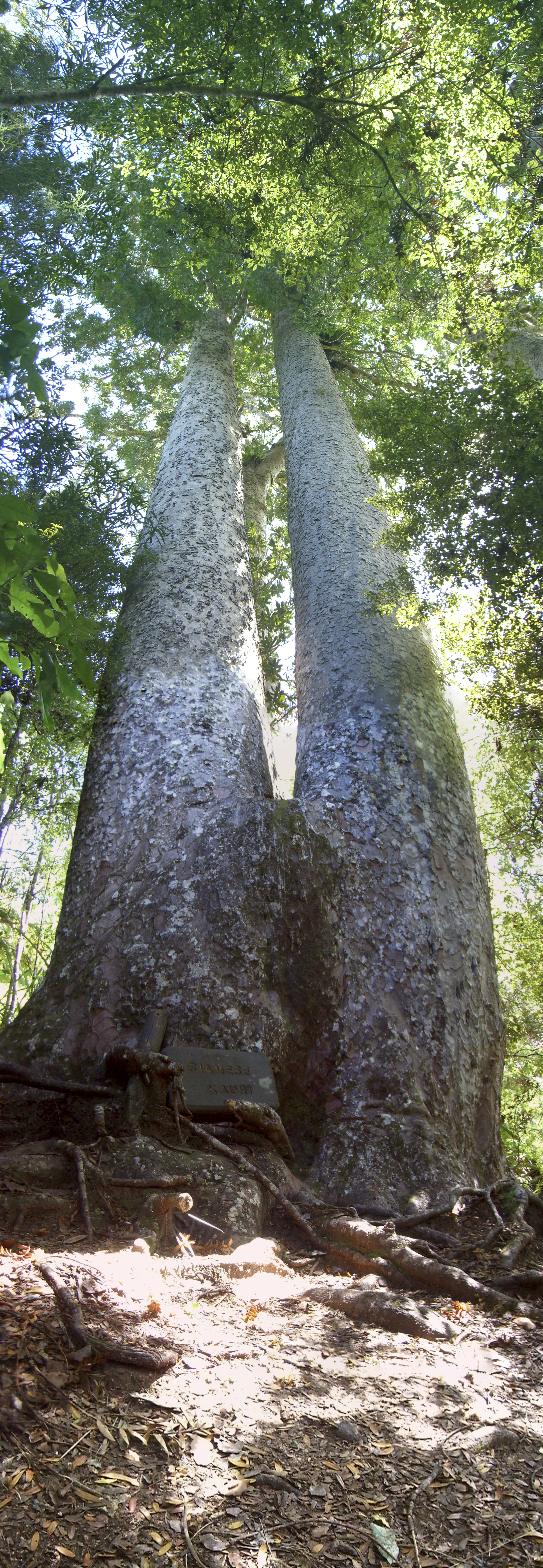 The 'Siamese Kauri', located on 309 Road of the Coromandel Peninsula, New Zealand. This is a vertical panoramic of seven blended images to portrait the massive scale of the tree.